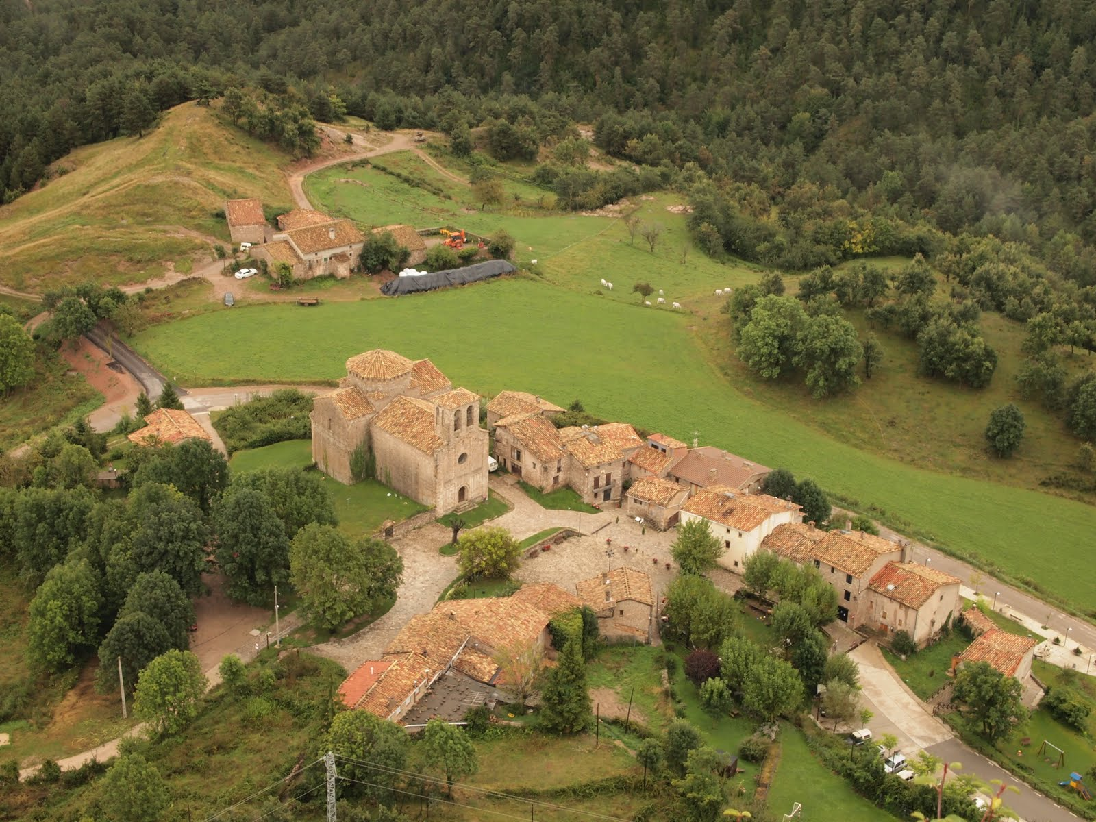 Aerial view of Sant Jaume de Frontanyà